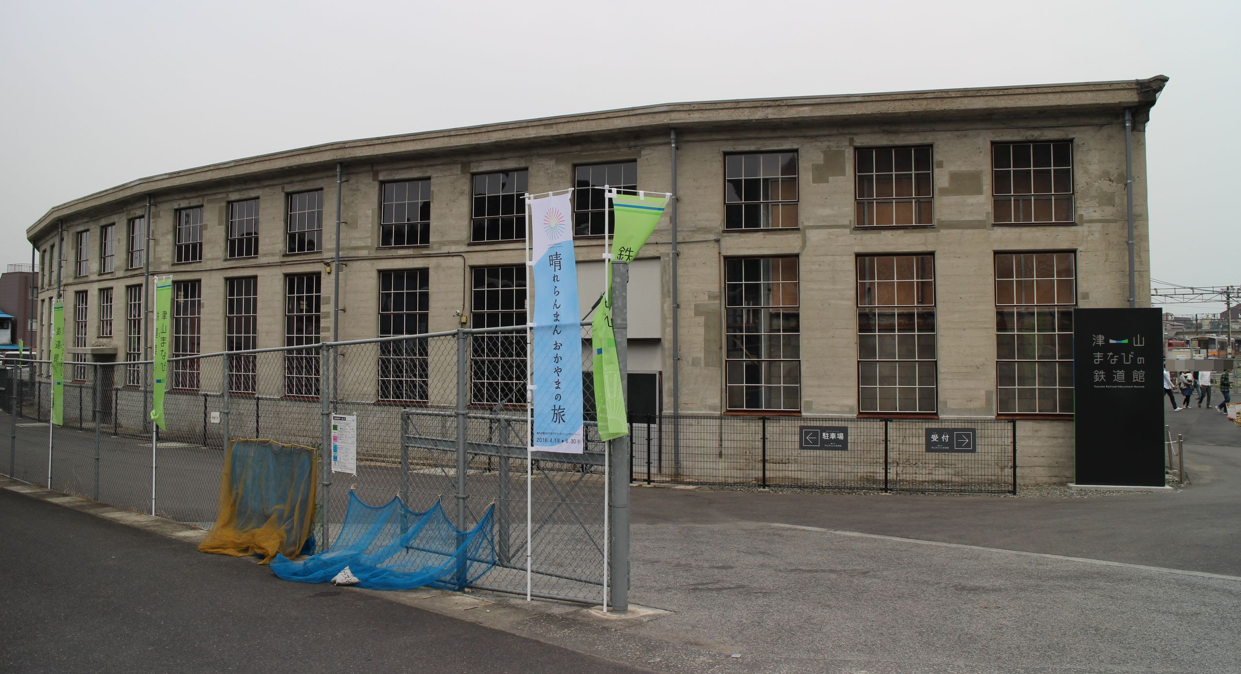 Tsuyama Railroad Educational Museum in Tsuyama, Okayama Prefecture, Japan